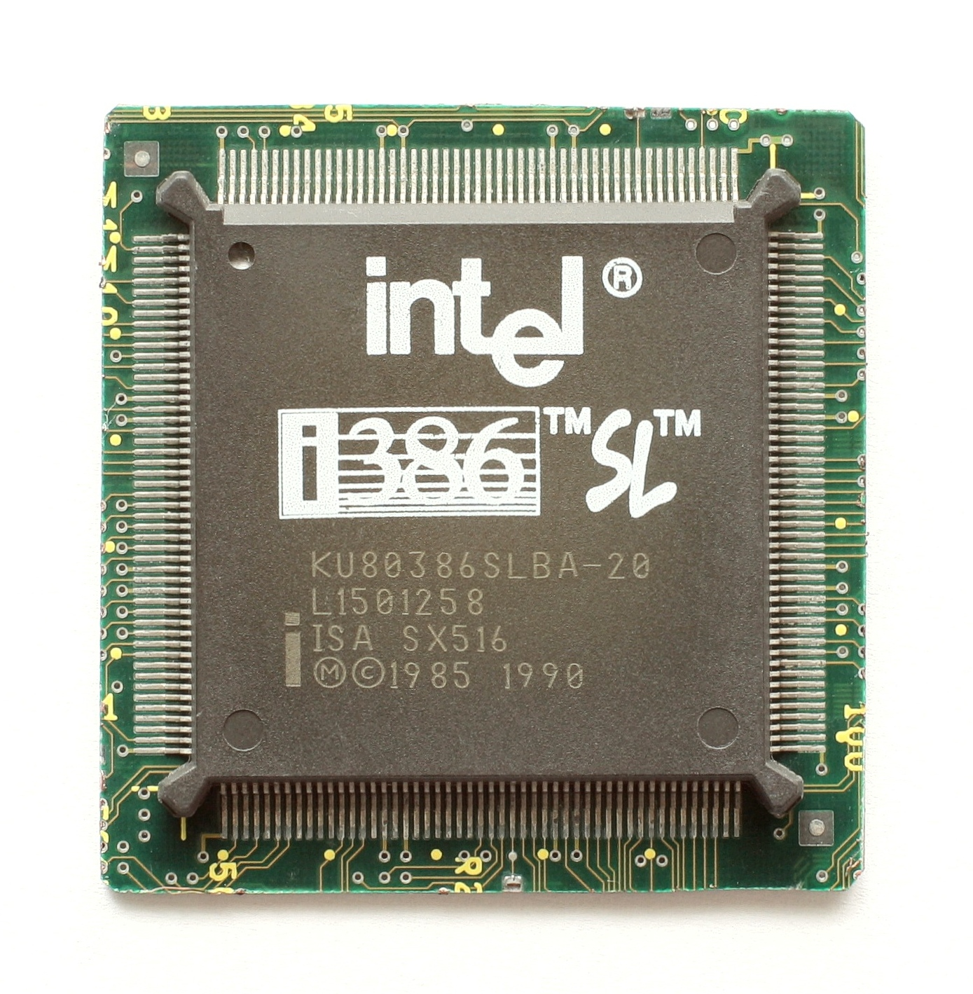 CPU Intel i386SL.